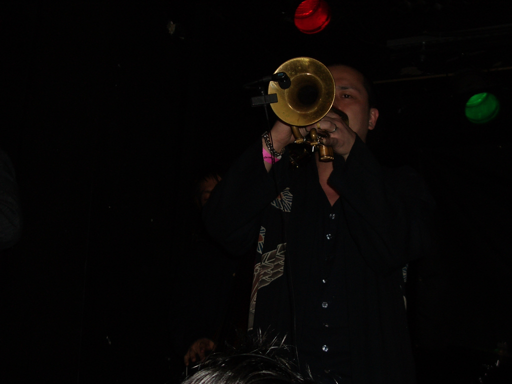 PE'Z Live in 2006